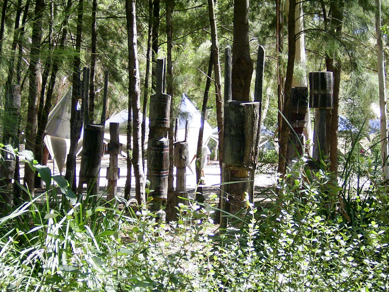 Sculptures at Lake Burley Griffin, Canberra, near the National Gallery